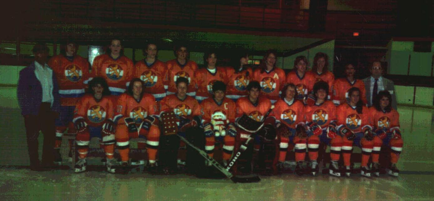 Netherlands female ice hocky team "Can 1989, World Tournament 1987".